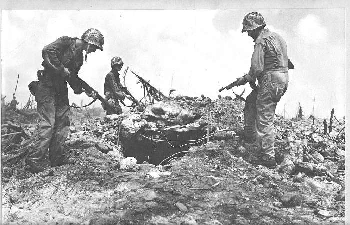 US troops inspecting an enemy bunker, Kwajalein Atoll.